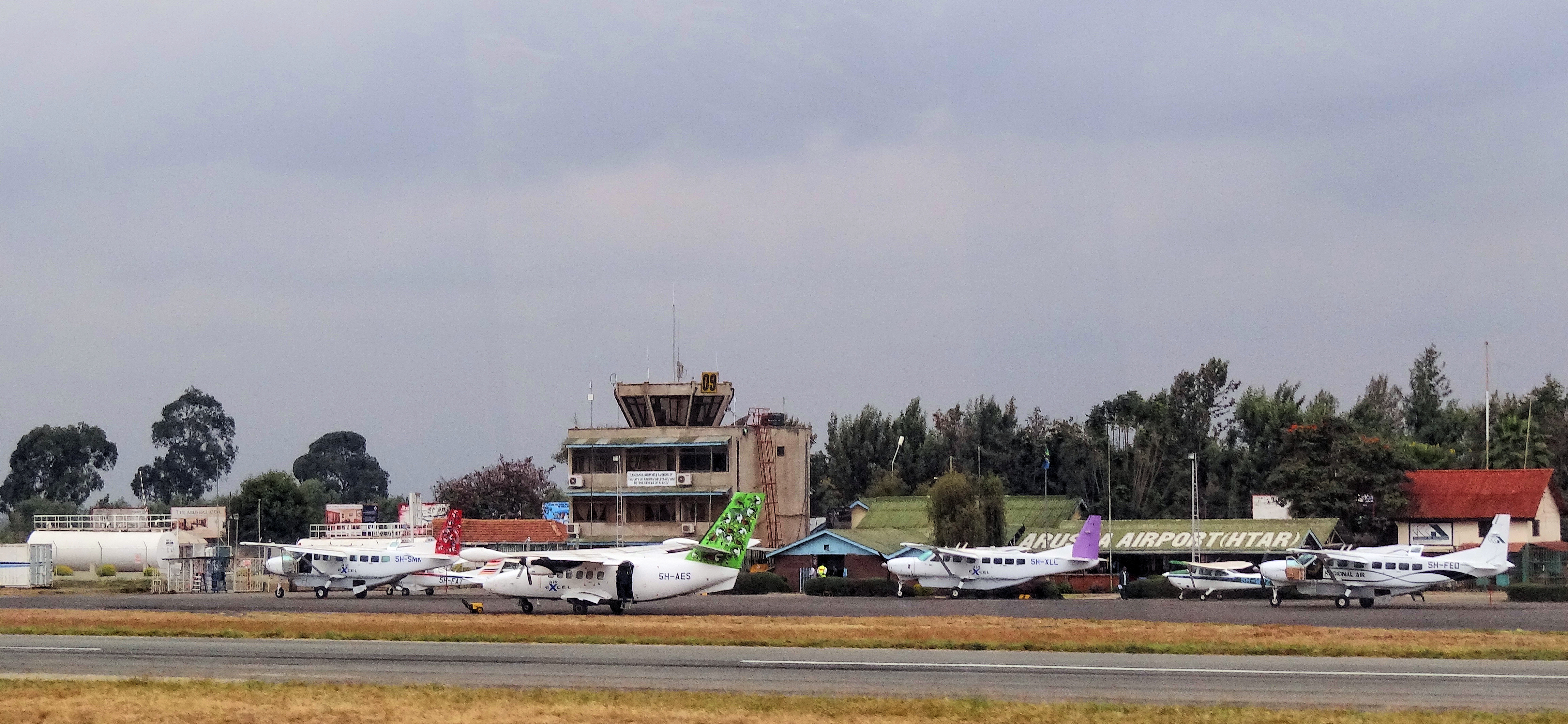 Arusha Airport photographed from the A104 highway passing just north of it.